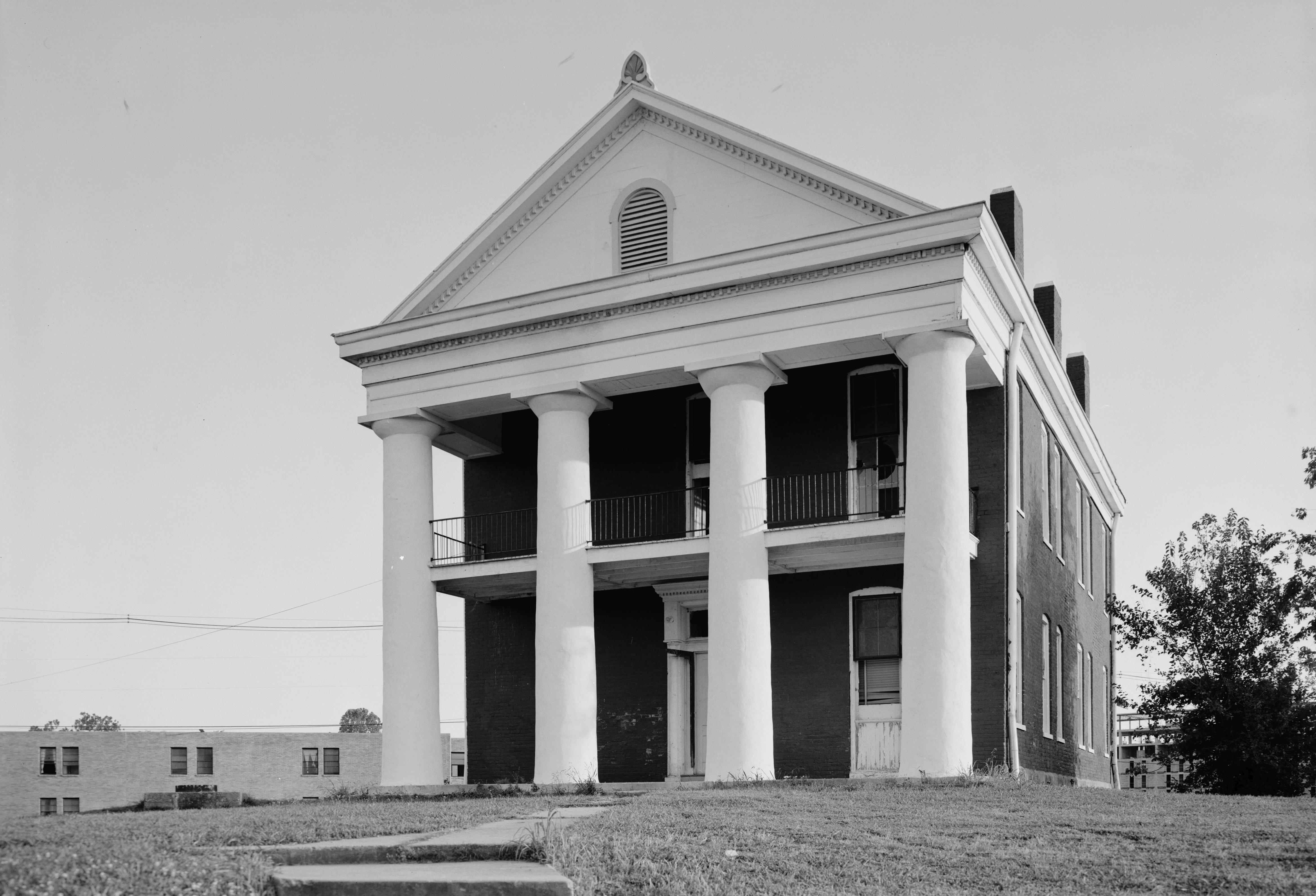 Front of the Literary Society Building on the campus of Alcorn State University in Lorman in Marion County, Mississippi, United States. Built circa 1850, it is part of the Alcorn State University Historic District, a historic district that is listed on the National Register of Historic Places.